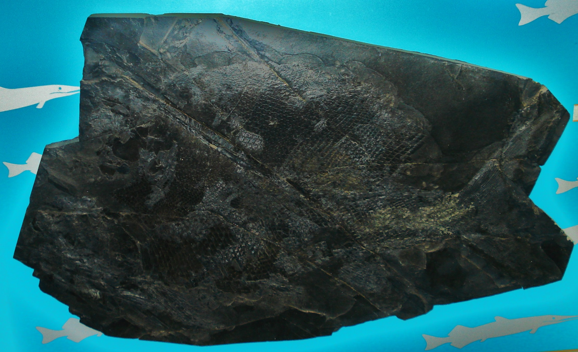 Fossil of Colobodus bassanii, an extinct fish